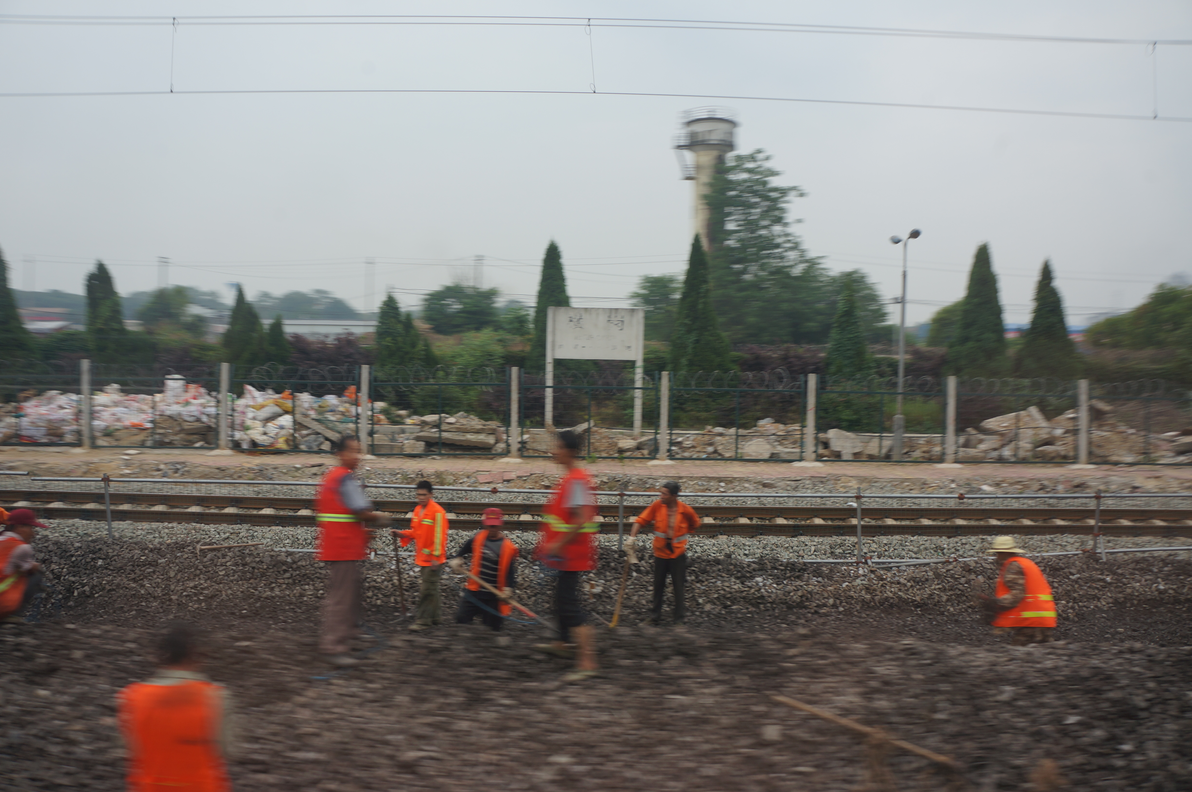 Hang Kong Station